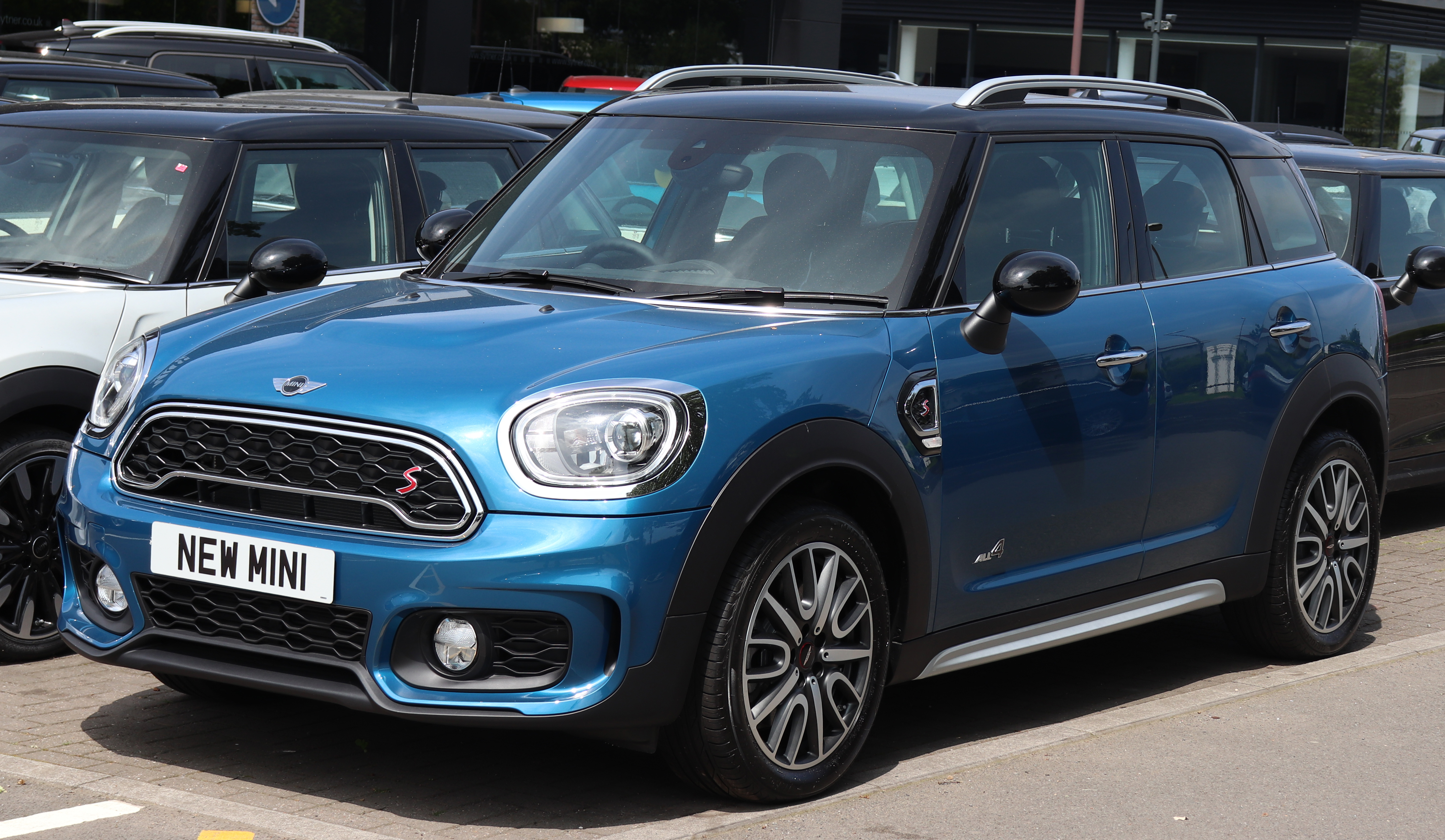 2018 Mini Cooper Countryman S Front Taken in Solihull